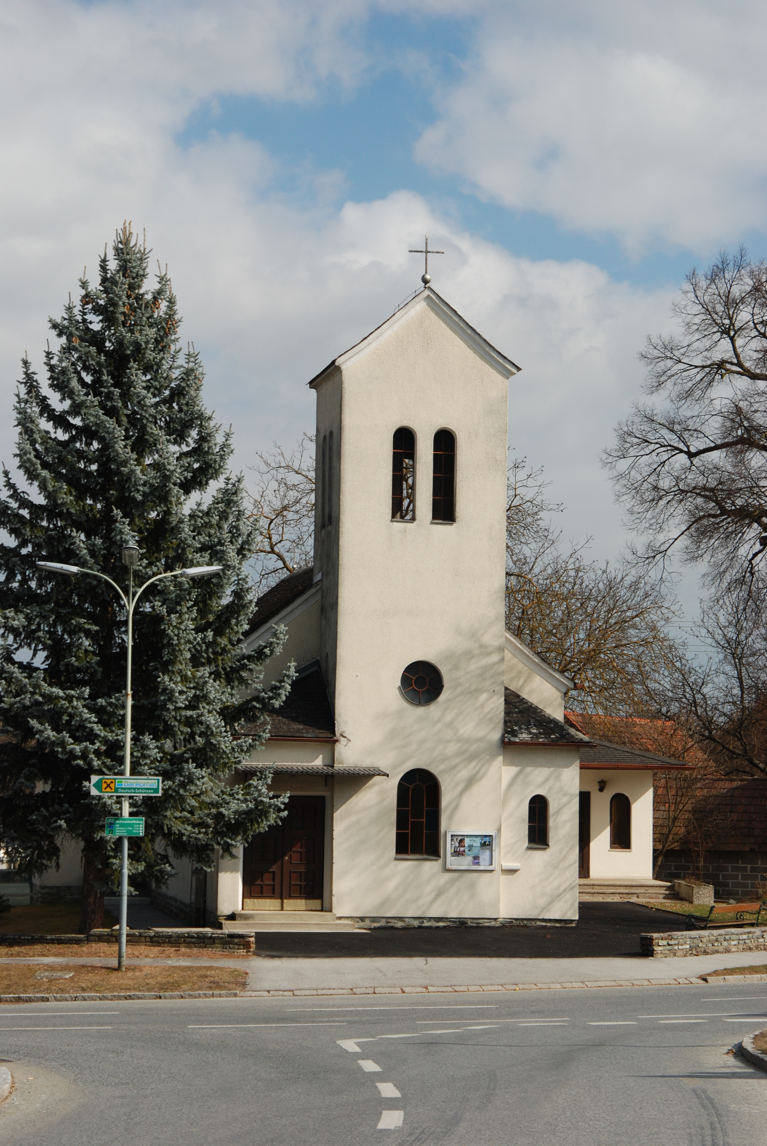 Kirche Edlitz im Burgenland